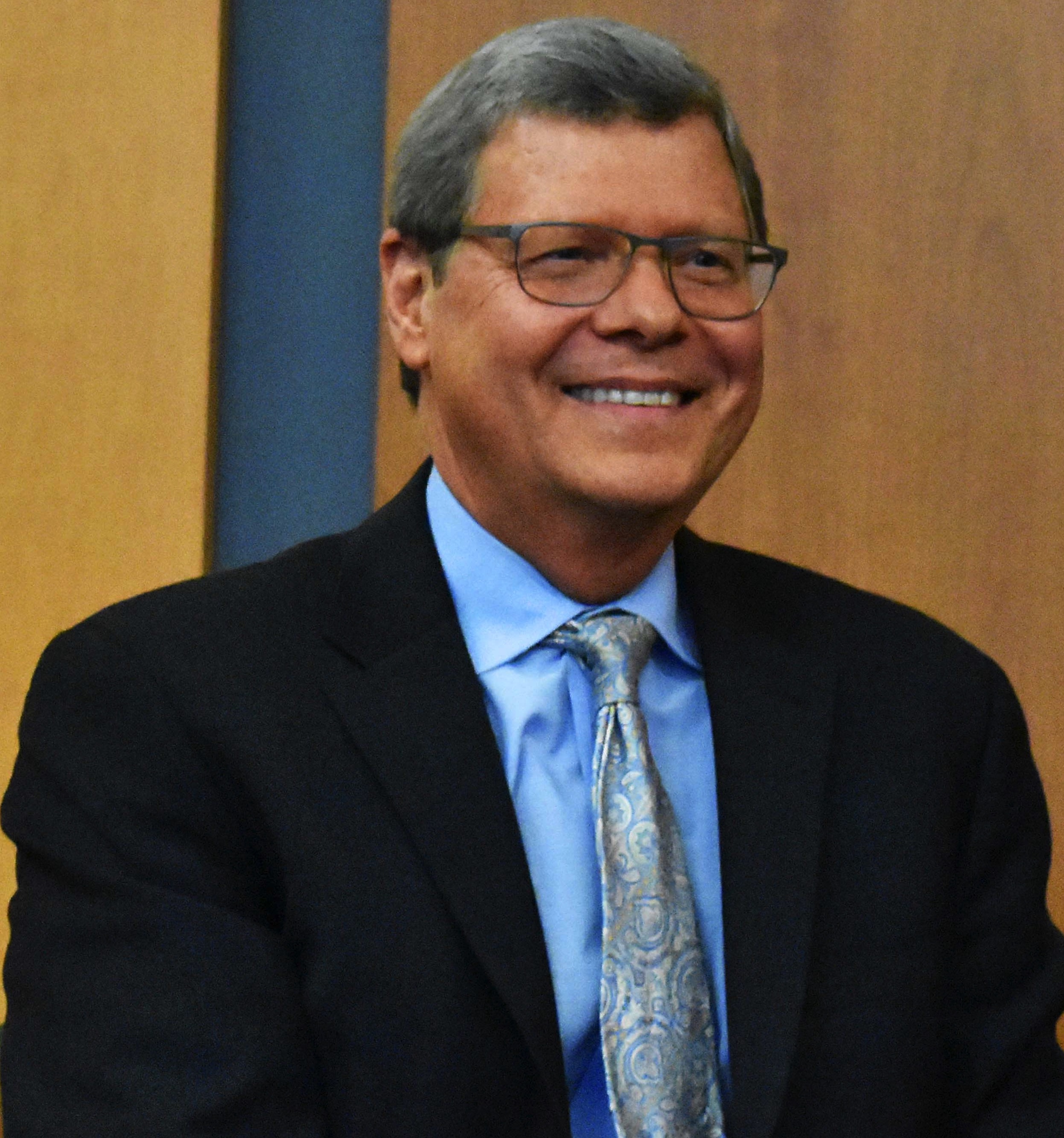 Charlie Sykes, political commentator, speaking and signing autographs at the University of Wisconsin-Parkside on March 21, 2019.